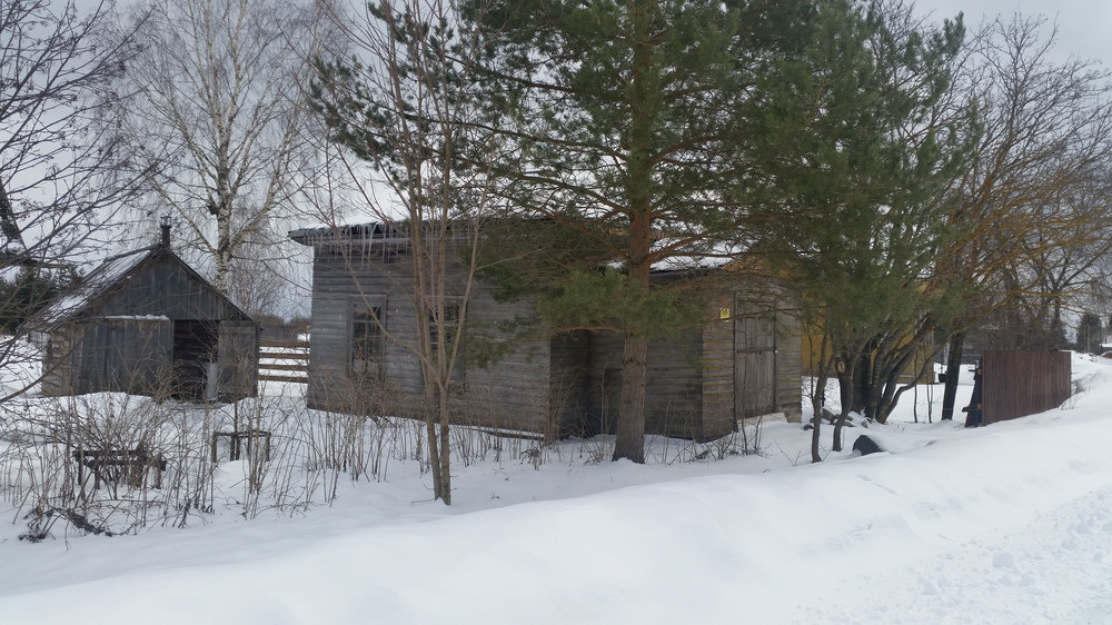 Часовня Богоявления Господня в Луневской